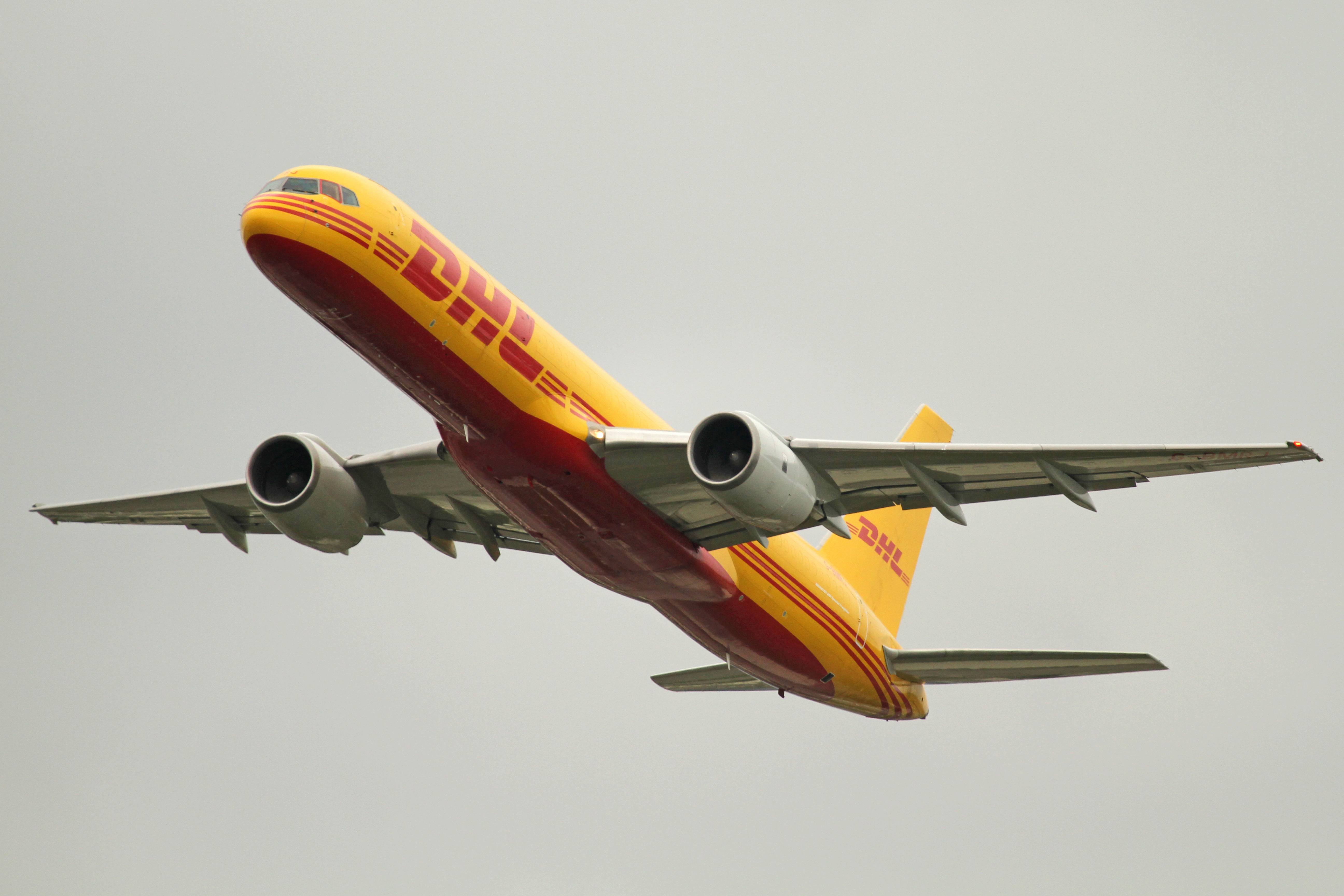 RIAT 2012